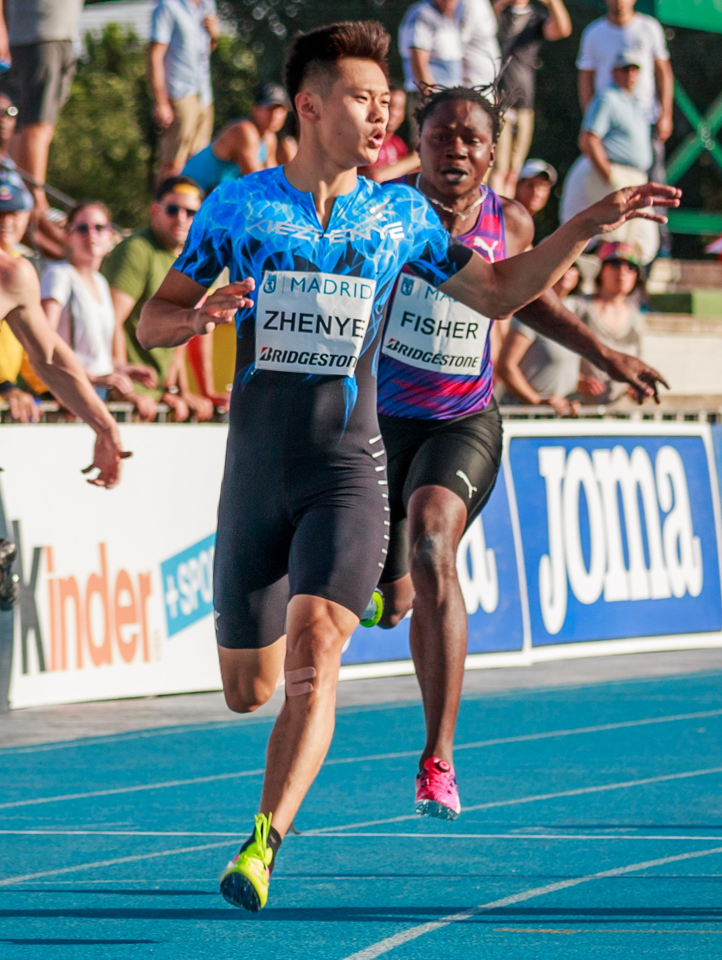 Xie Zhenye, 100m (semifinal 2), IAAF World Challenge, Meeting Madrid 2017. Moratalaz, Madrid.